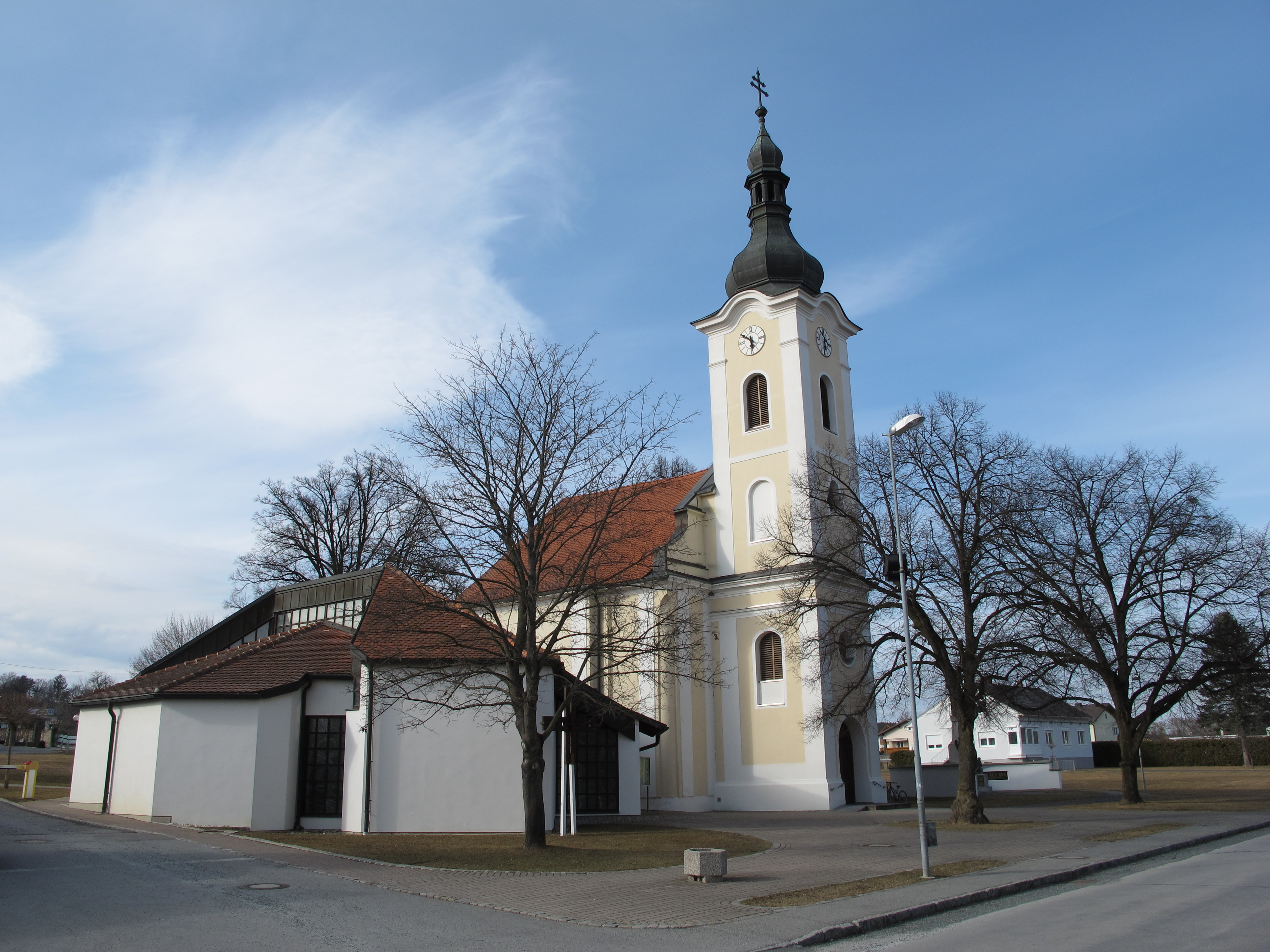 Church Ollersdorf im Burgenland